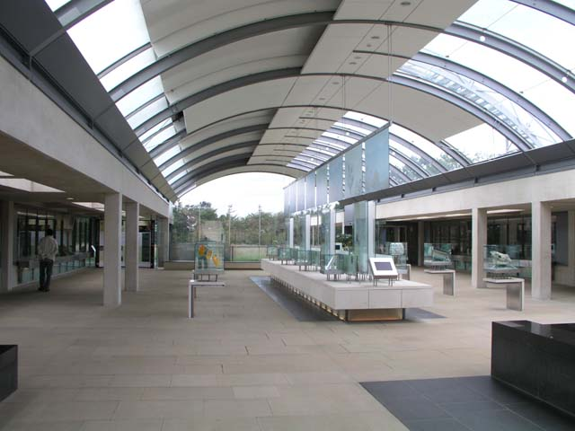 Millennium Seed Bank visitor hall The centre of the building contains displays on the Millennium Seed Bank's work and is permanently open to the public. More interestingly, the public can see into the laboratories, on either side of the hall, where the real work is undertaken (if you come during the week).